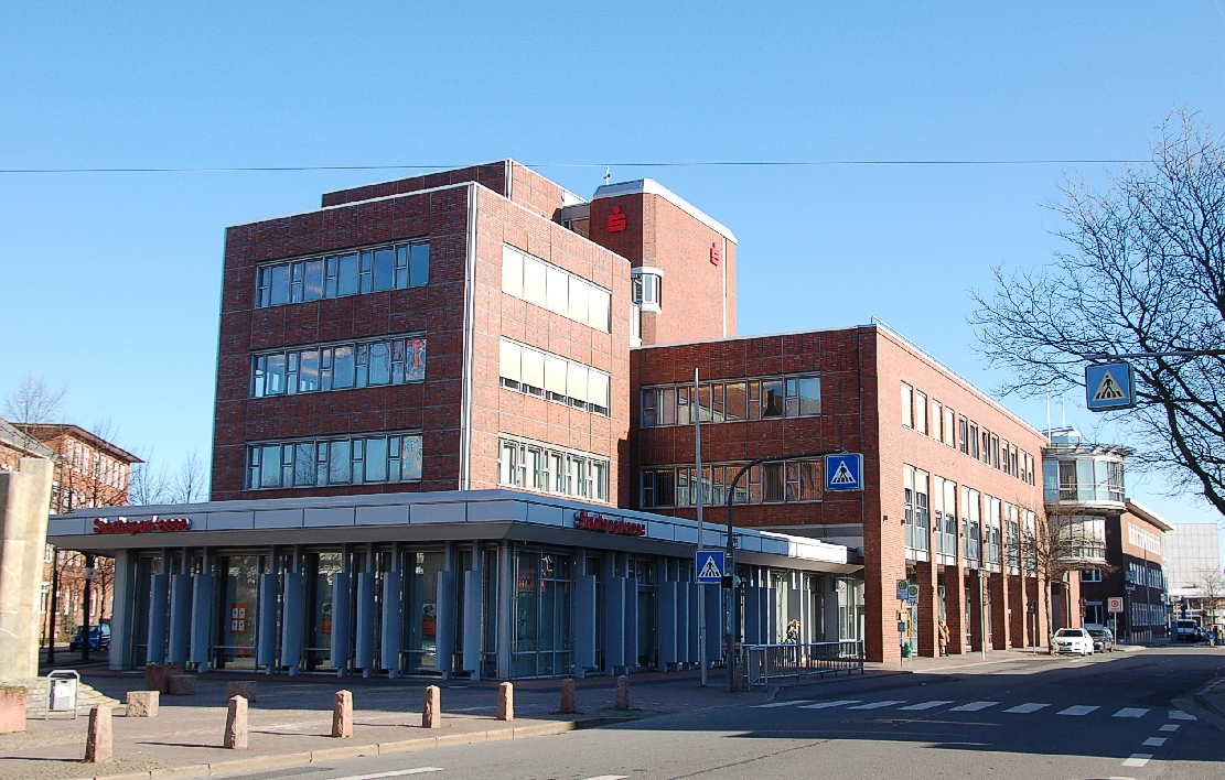 Pictures from Cuxhaven